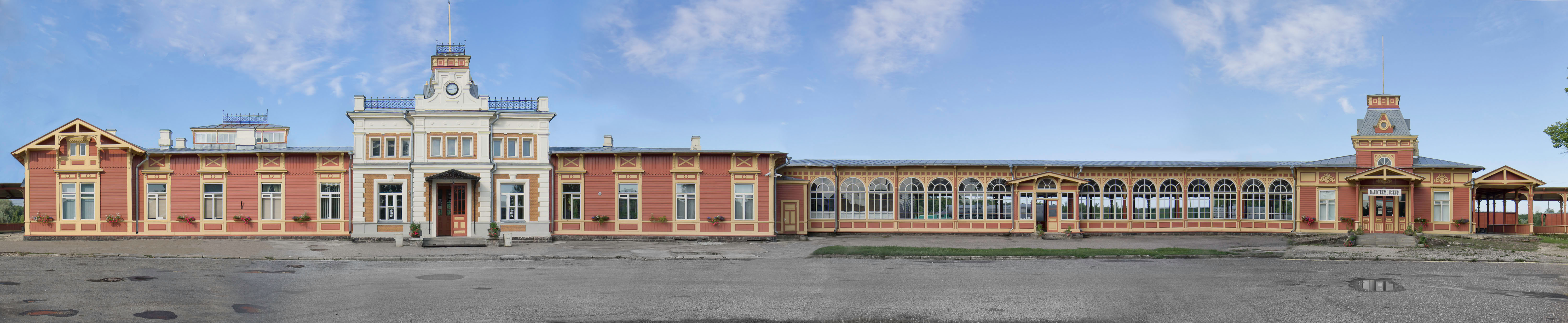 Haapsalu railway station. Today Estonian Railway Museum.